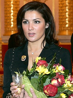 Anna Netrebko